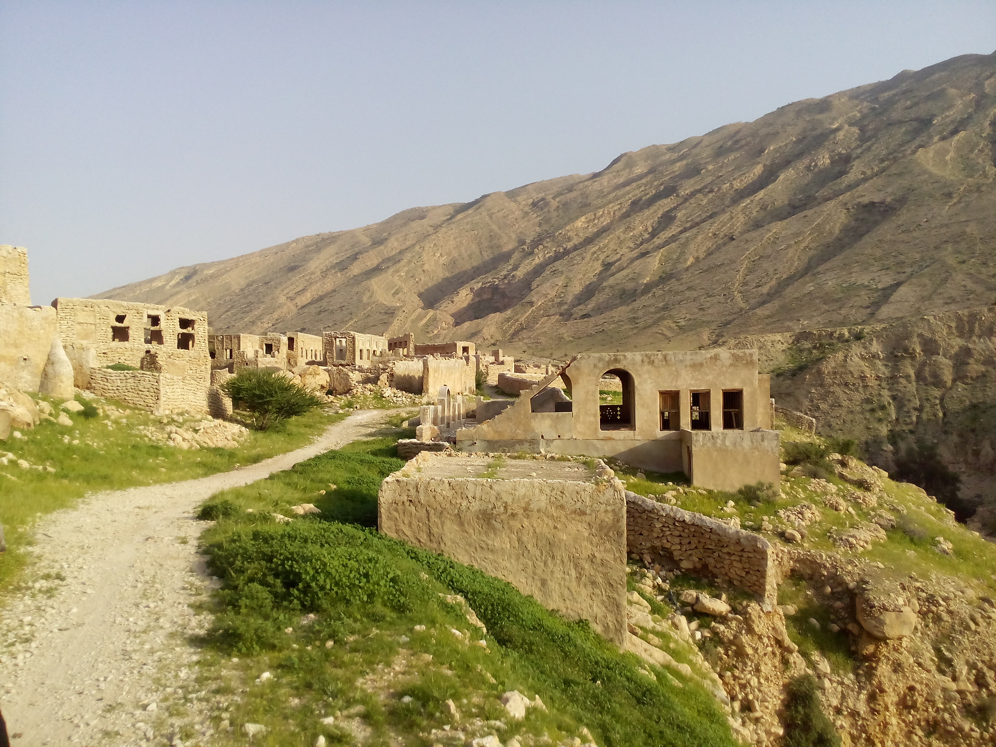 Entrance of historical Bastekalat (baste qalat) village Аҧсшәа: (ورودی روستای تاریخی بست کلات (بستقلات